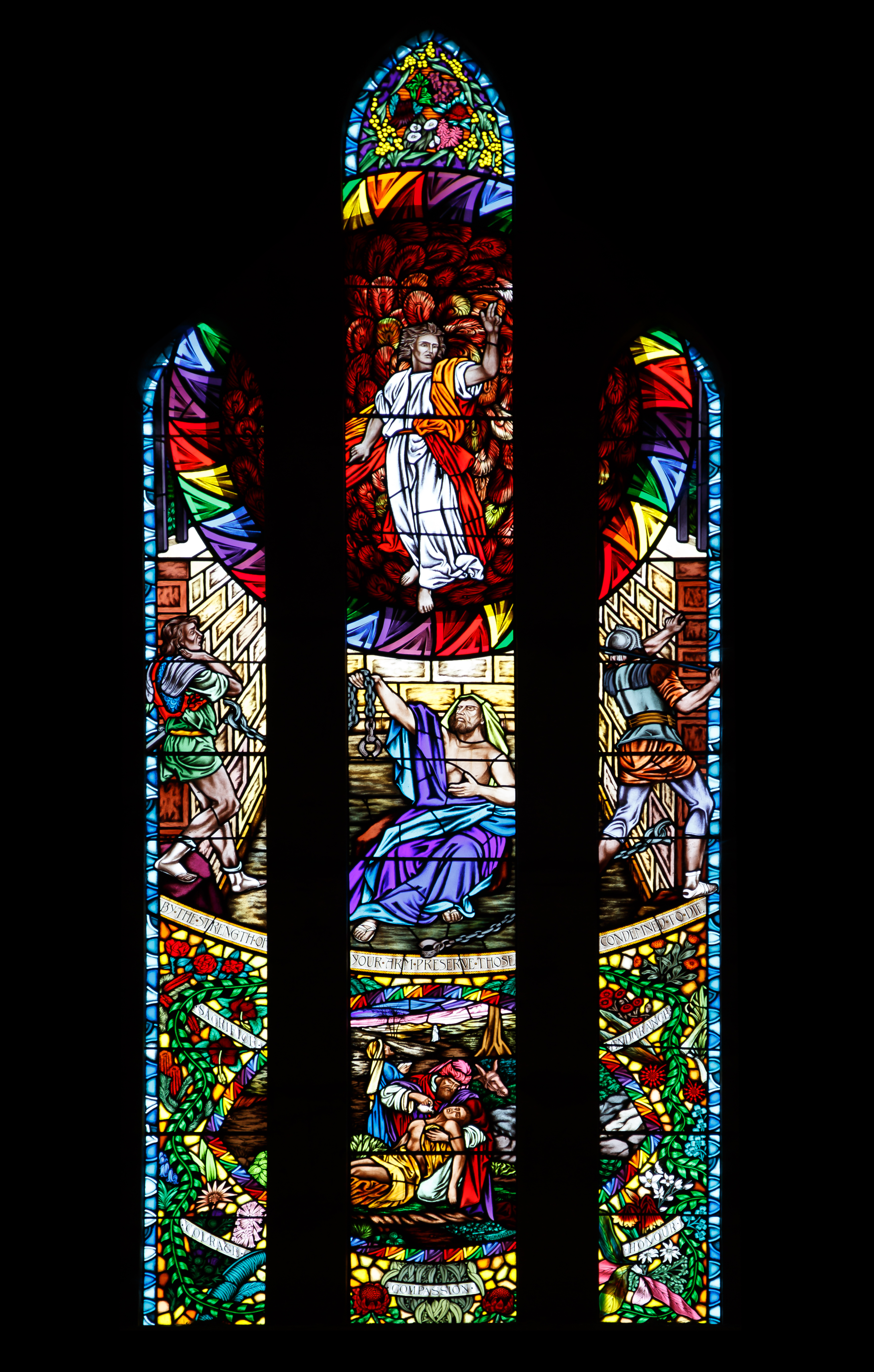 Sandakan, Sabah: Gereja St. Michael in Sandakan, Great West Window